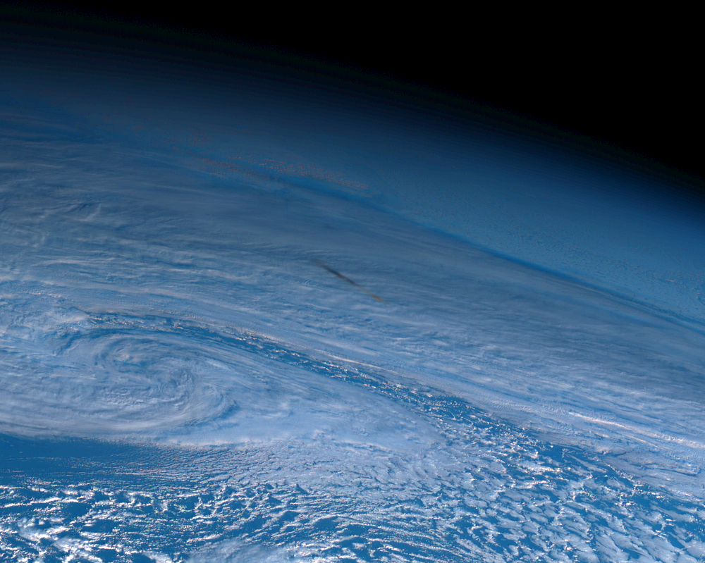 The Himawari 8 satellite captured the Kamchatka superbolide on 19 December 2018 at 09:40 (JST)